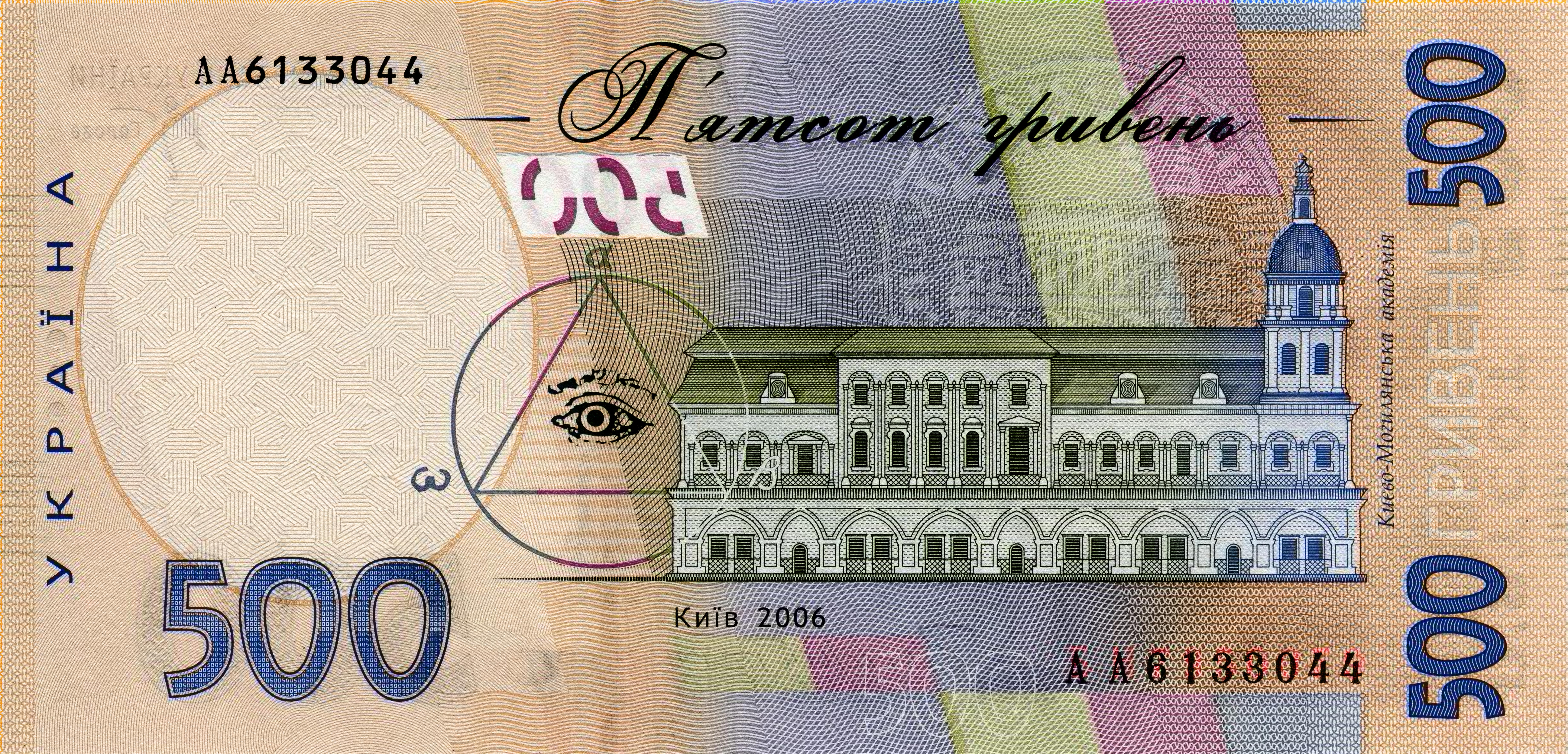 Ukraine 500 Hryvna 2006 back